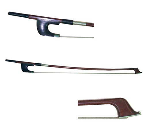 German-style double bass bow.